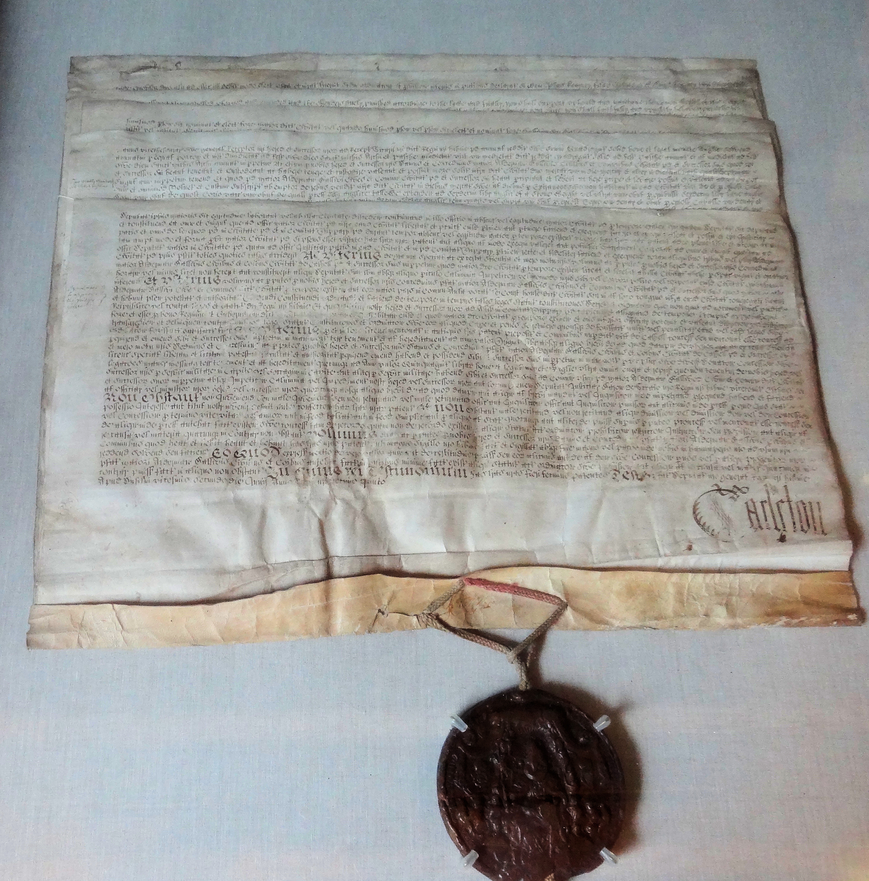 One of The Royal Charters of Cashel, this is the one from 1663, issued by Charles II on six skins of vellum and the king's royal seal of beeswax. Privileges granted by charters: The town is to be governed by the Provost and 12 Burgesses (Freemen). There was to be free pasture for the citizens on the Commons Land. Power was given to hold Courts to determine Civil and Criminal Proceedings. Rights to receive taxes were given.